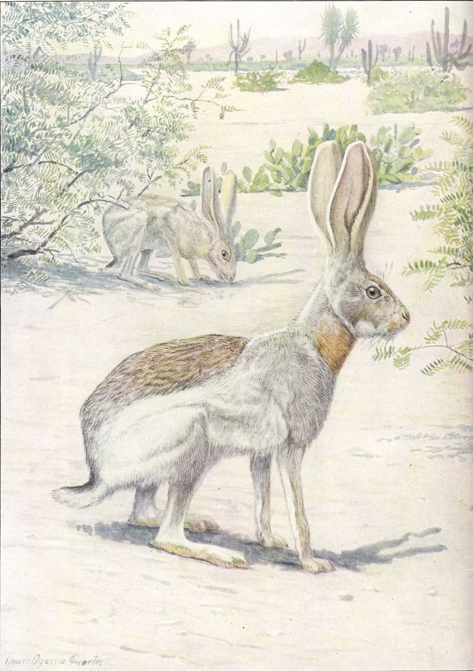 A drawing of two Antelope Jackrabbits (Lepus alleni) from National Geographic, May 1918, Vol XXXIII, No. 5, Pg 404 in an Article titled "Smaller Mammals of North America" The painting is by Louis Agassiz Fuertes